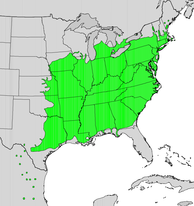 Range map of Platanus occidentalis